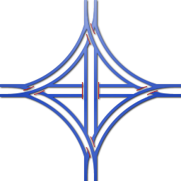 Full Diamond Road Interchange